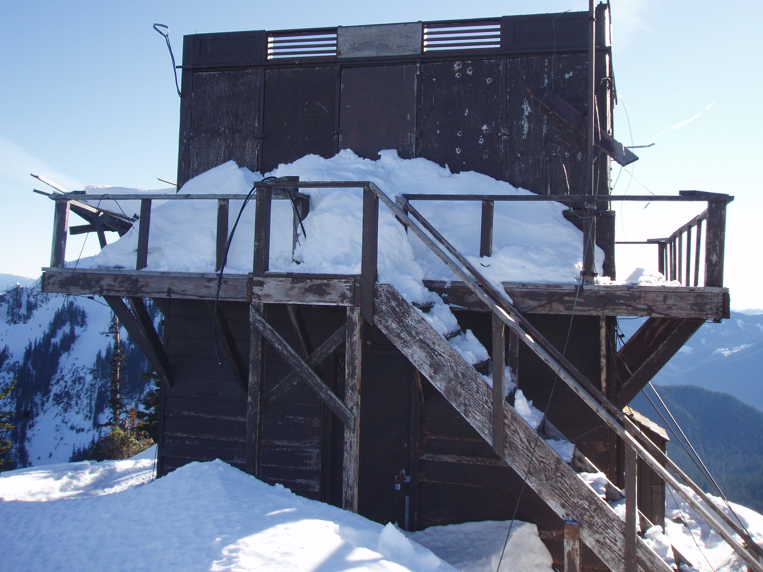 Gobbler's Knob Fire Lookout in Mount Rainier National Park. Listed on the National Register of Historic Places.